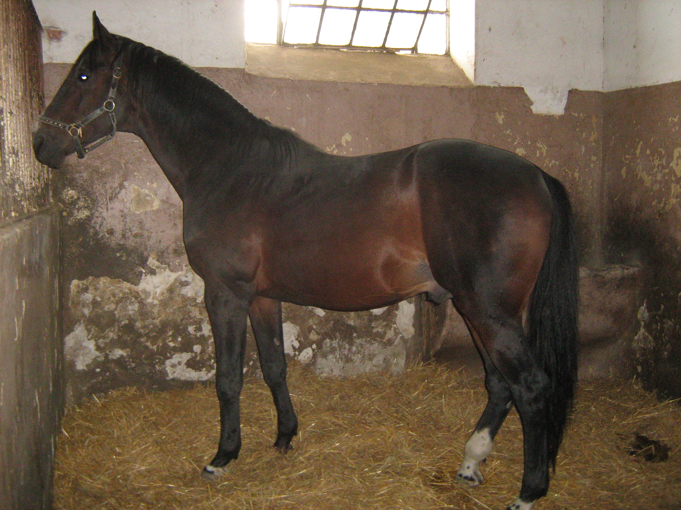 East Bulgarian